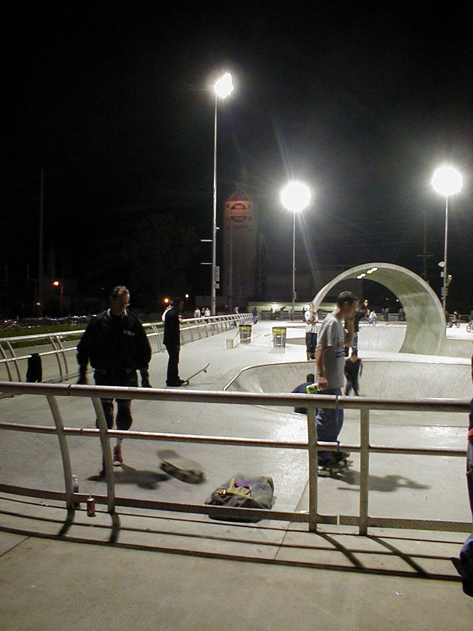 The Louisville, KY skatepark at night / 2002 Picture taken by Alan Blount in Louisville, Kentucky